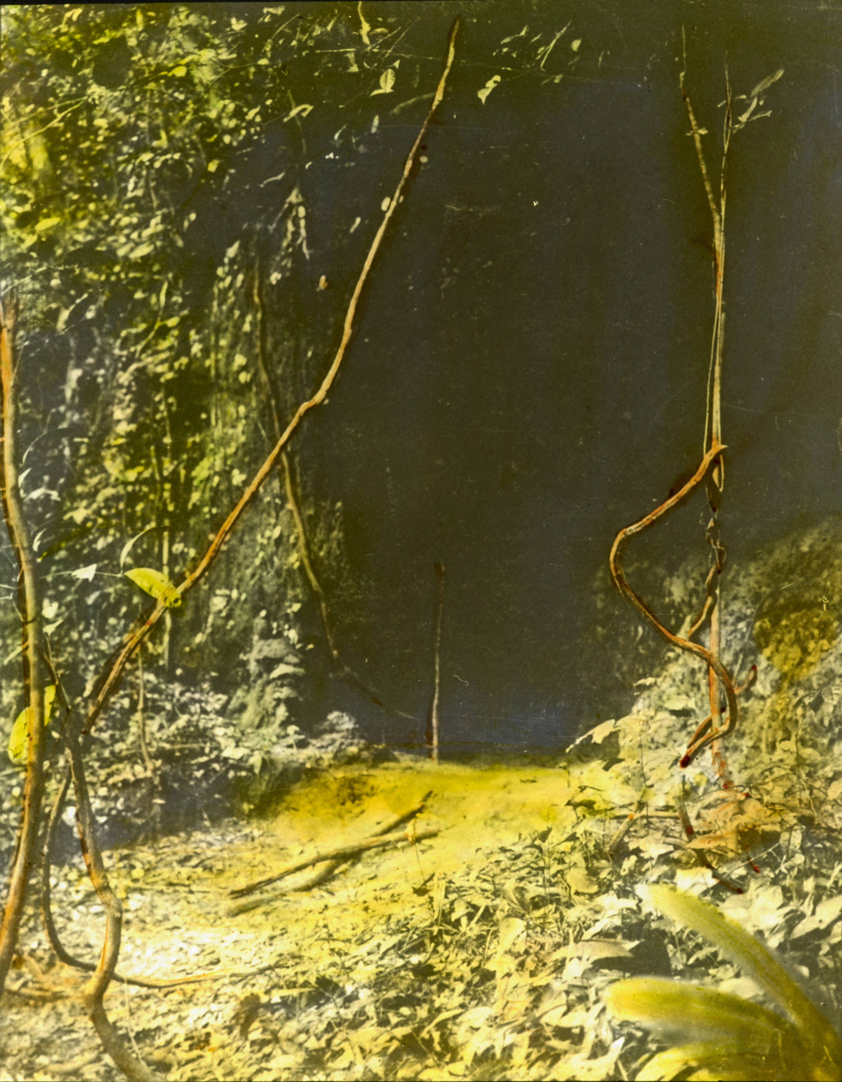 Cropped